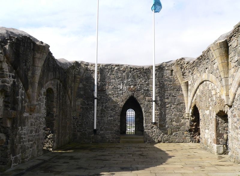 Dundonald Castle, South Ayrshire, Scotland - upper hall